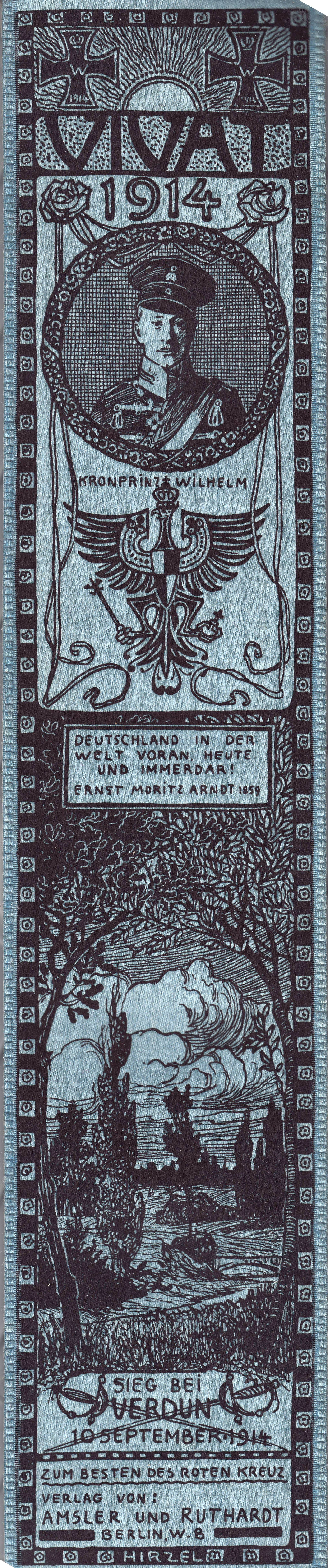 World War I Vivat ribbon with portrait and coat of arms of Kronprinz Wilhelm (German Crown Prince) with words Sieg bei Verdun 10 September 1914 (Victory at Verdun) and Deutscheland in der welt voran heute und immerdar! Ernst Moritz Arndt 1859 (Germany in the world ahead today and always! Ernst Moritz Arndt 1859) commemorating early stages of the Battle of Verdun. Printed by Amsler & Ruthardt in Berlin for German Red Cross to raise funds for war relief.